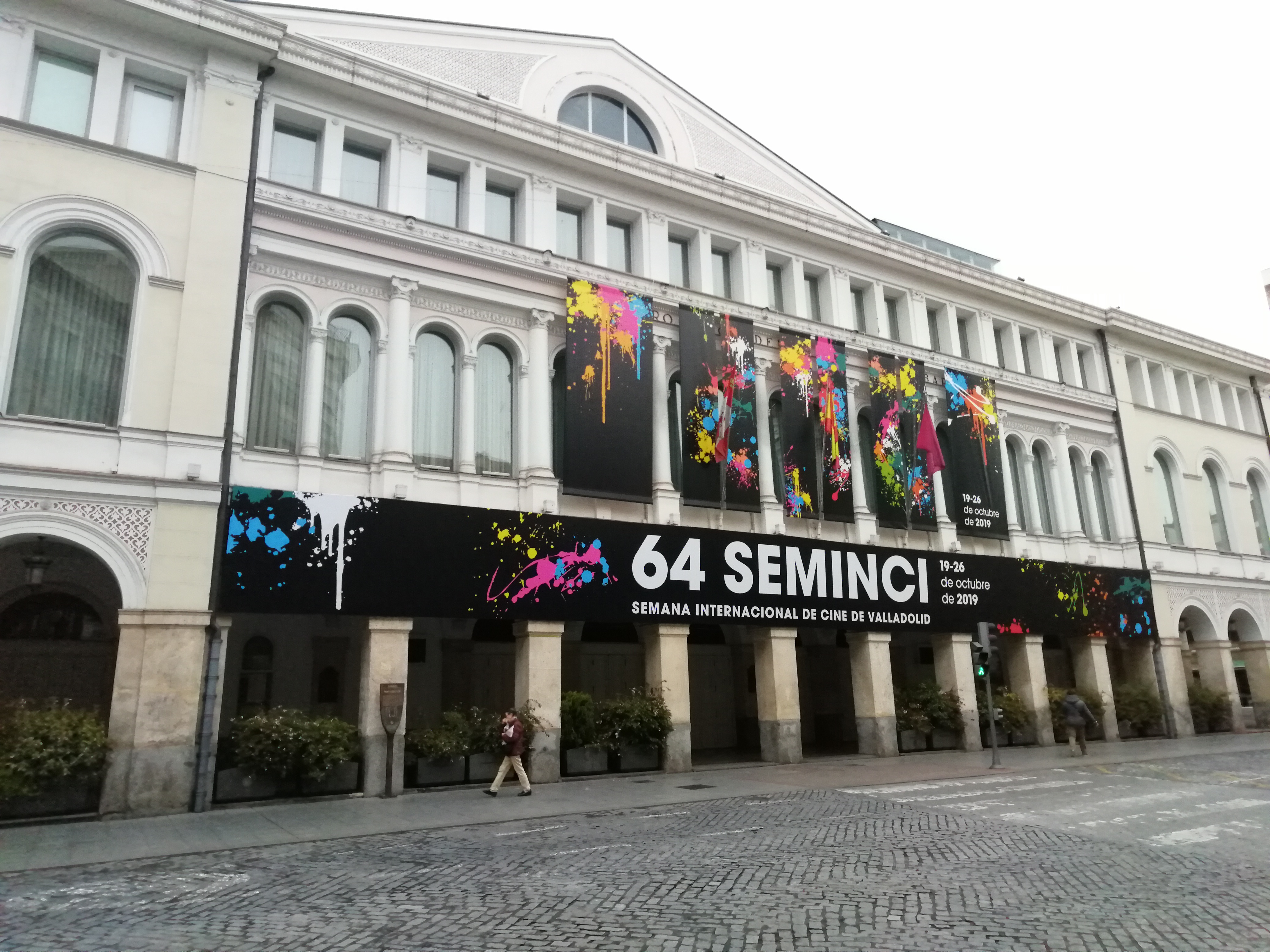 Outside of the Teatro Calderón in Valladolid (Spain) during the 64th Seminci (2019)